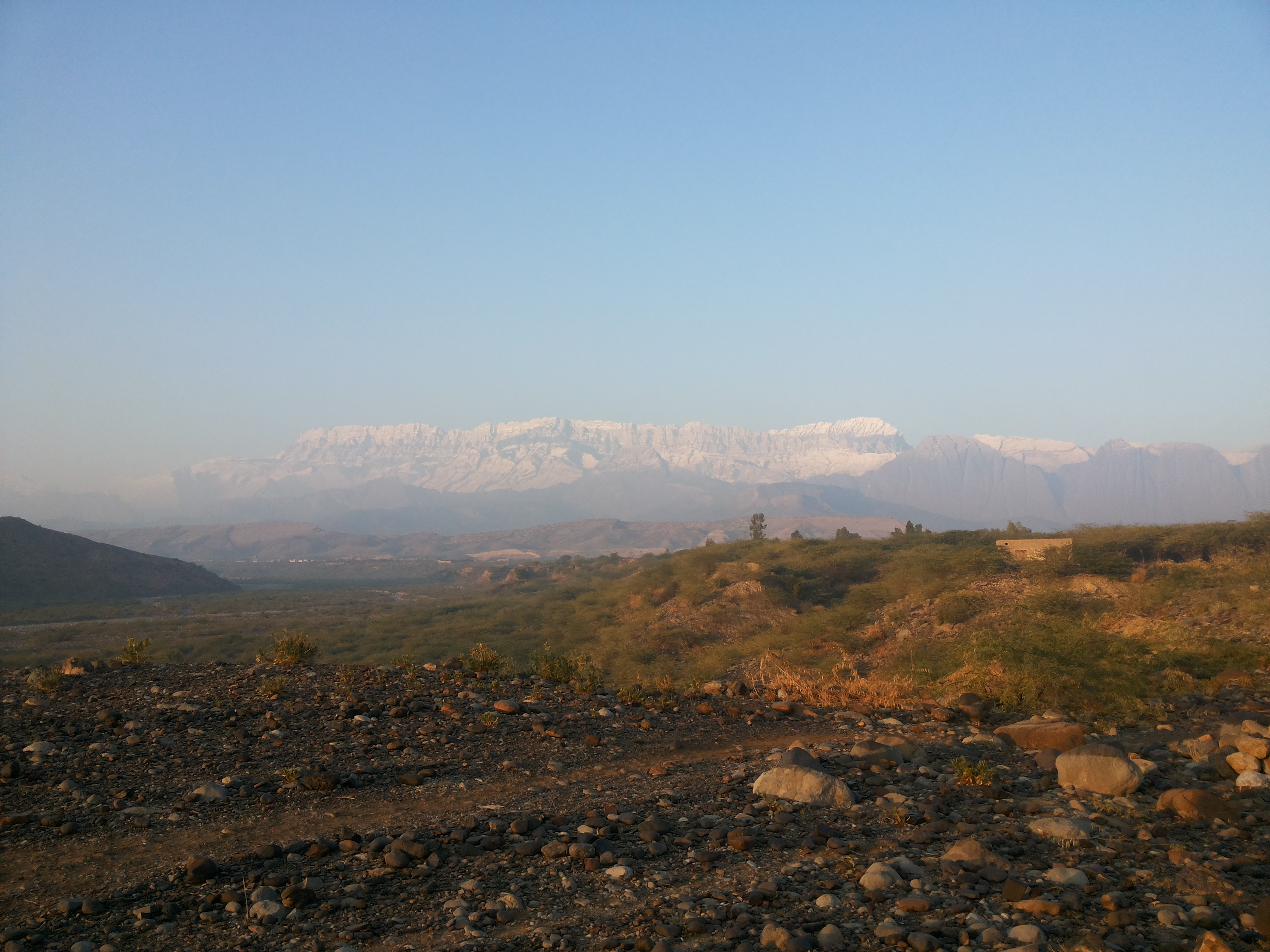 koi suleman